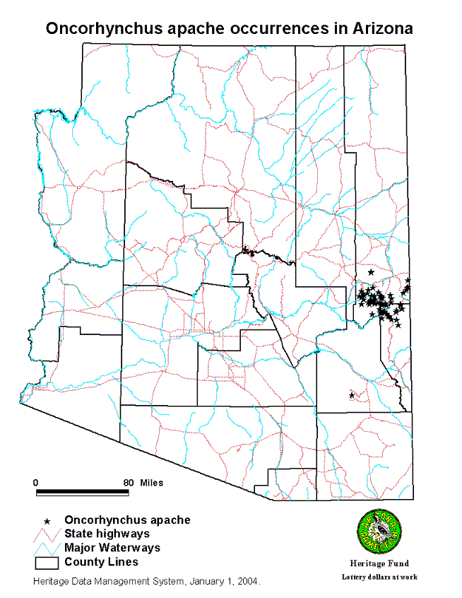 Apache Trout Distribution in Arizona